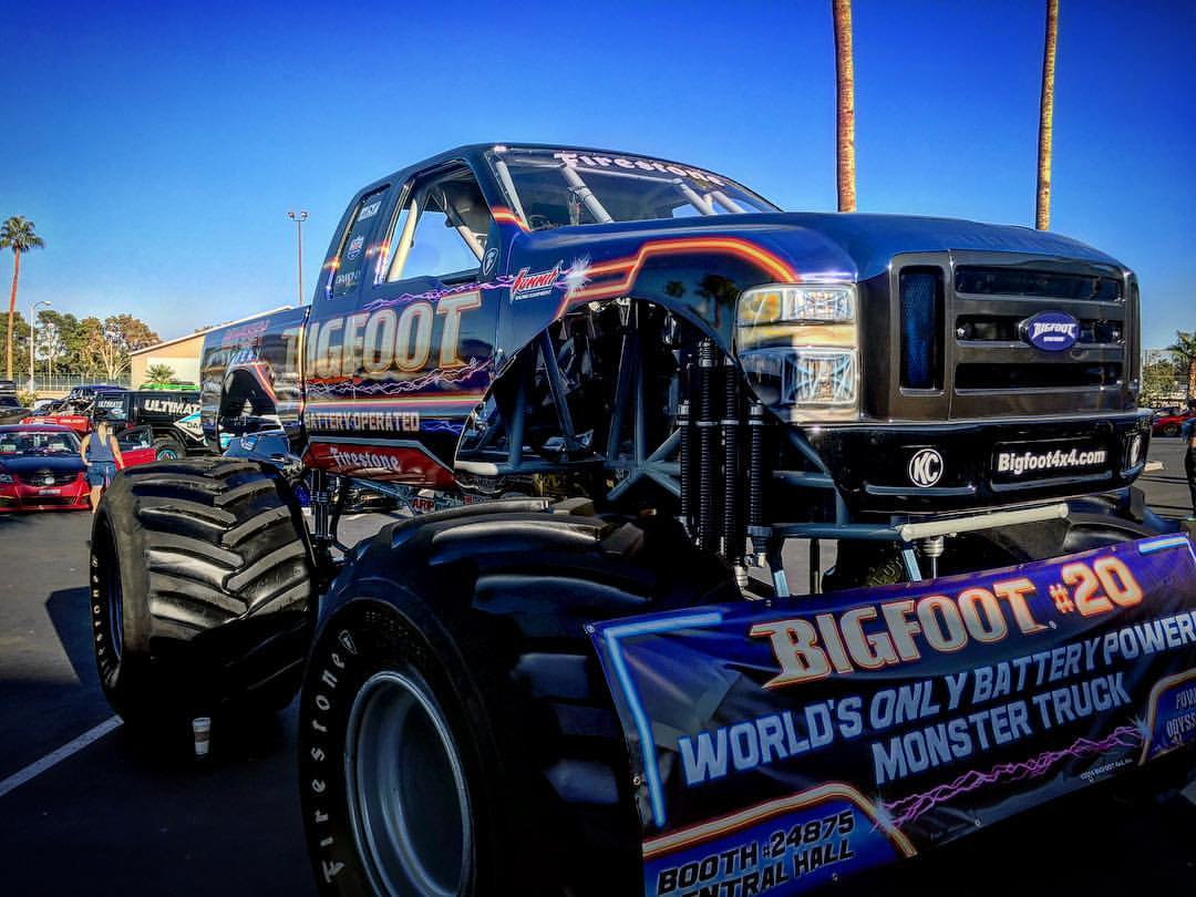 Bob Chandler is still in the game! First Electric "Bigfoot" 20th of a line that invented Monster Truck back in the mid-80's. #bobchandler #bigfoot #originalmonstertruck